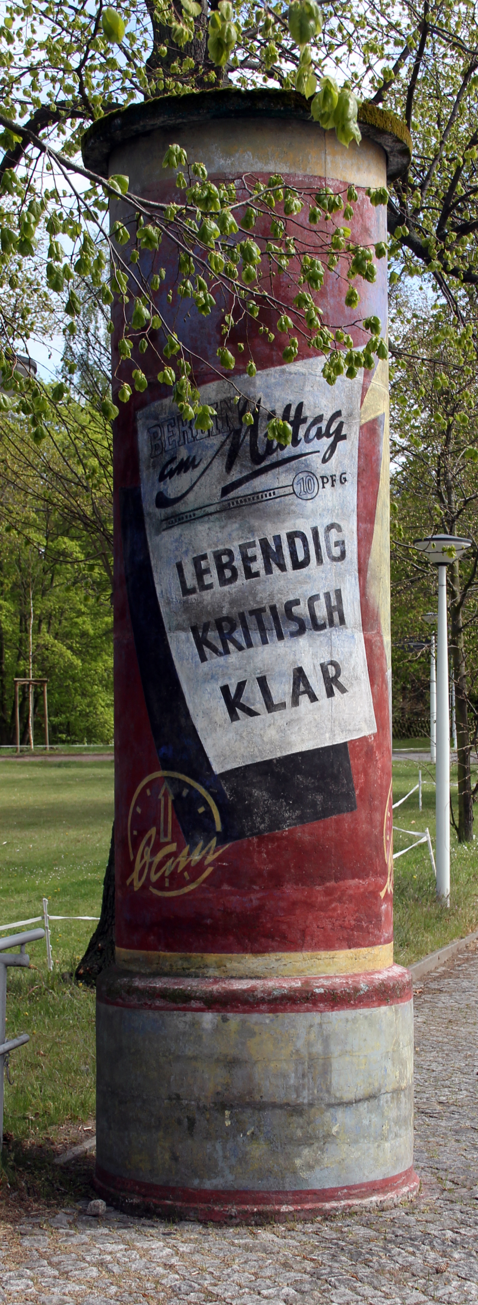 B.Z. am Mittag, Wannseebadweg 25, Berlin-Nikolassee, Germany